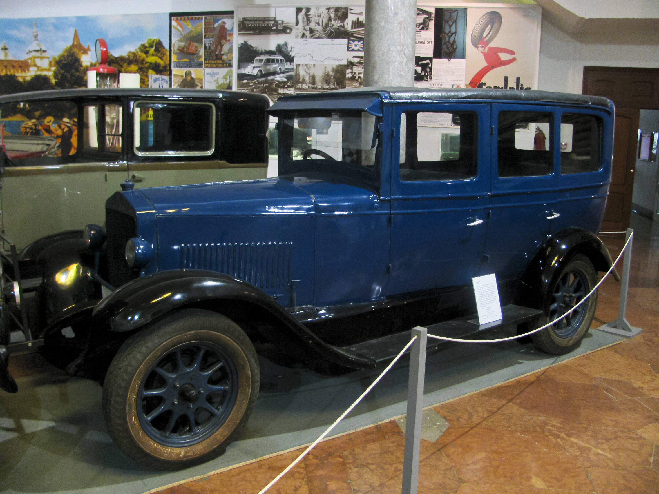 Magosix from 1928. Produced by Magyar Általános Gépgyár. Powered by a four-stroke, 2 100 ccm six-cylinder engine of which output is 29.4 kW (40 hp). The top speed is 90 km/h.